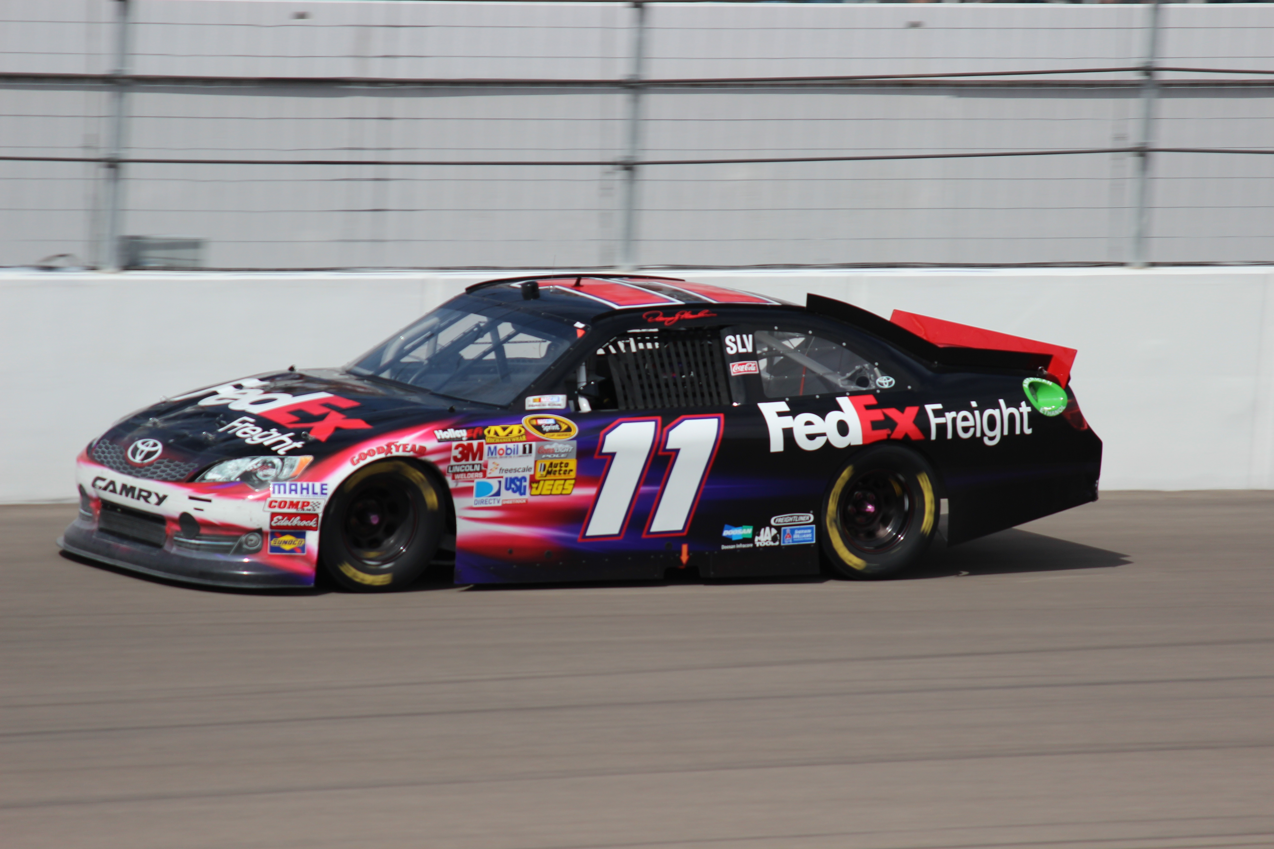 Denny Hamlin races in the w:2012 Kobalt Tools 400 at Las Vegas Motor Speedway in Las Vegas, Nevada.